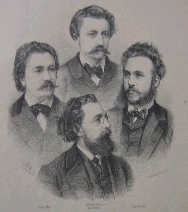 Florentiner String Quartet (about 1870) starting clockwise from below: Becker, Masi, Hilpert, Chiostri